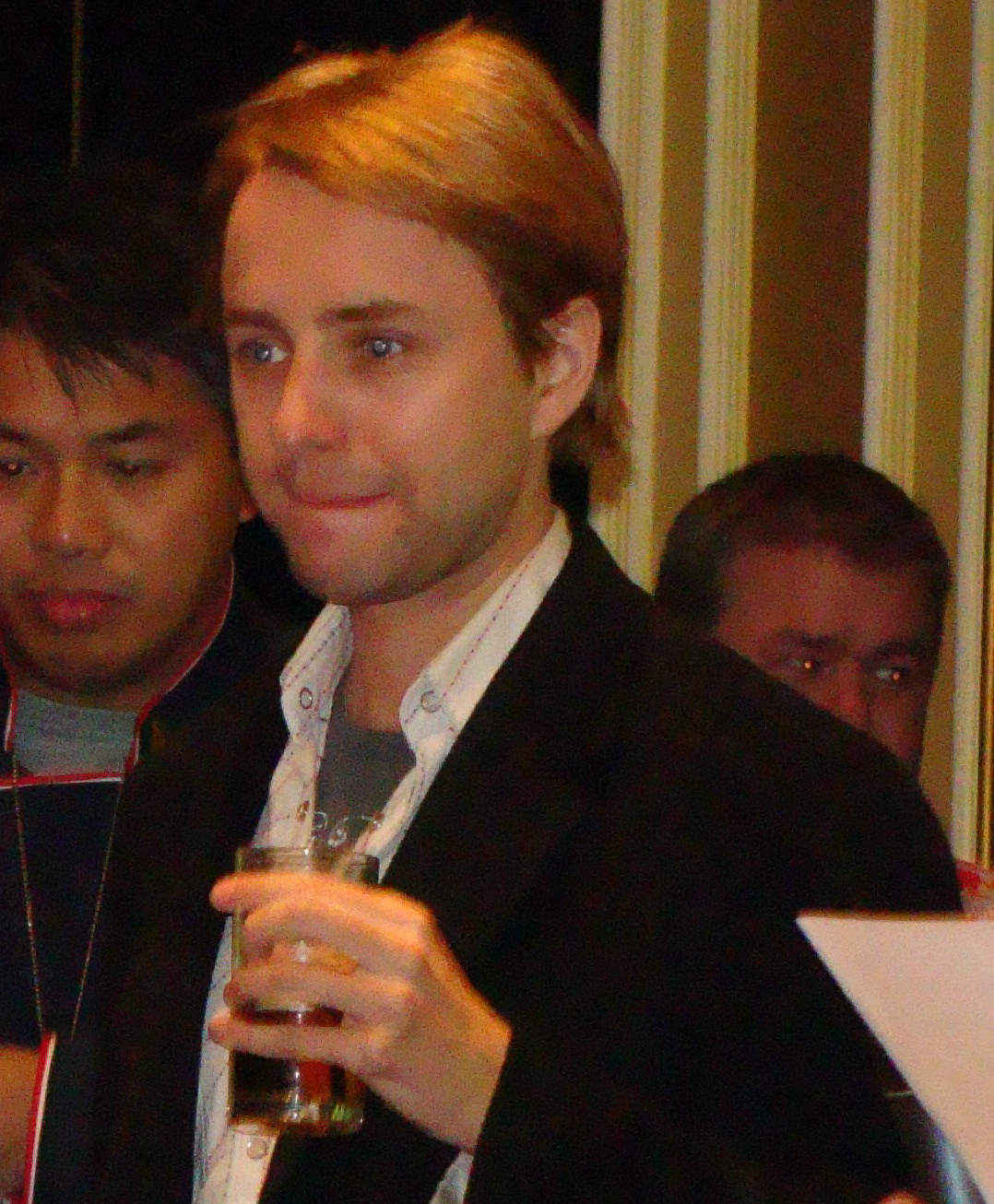 Vincent Kartheiser